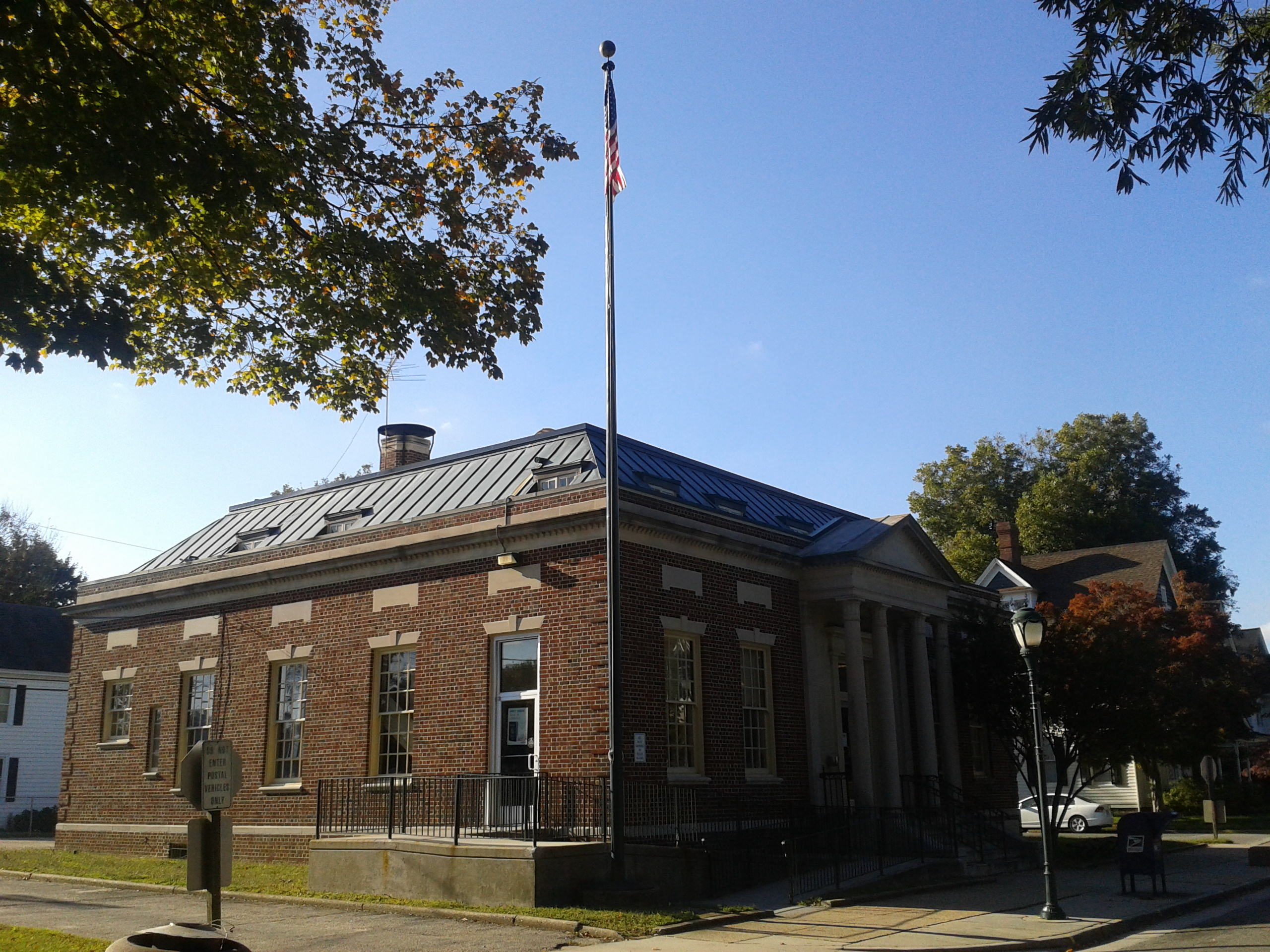 West Point, Virginia. Taken by me in October, 2016